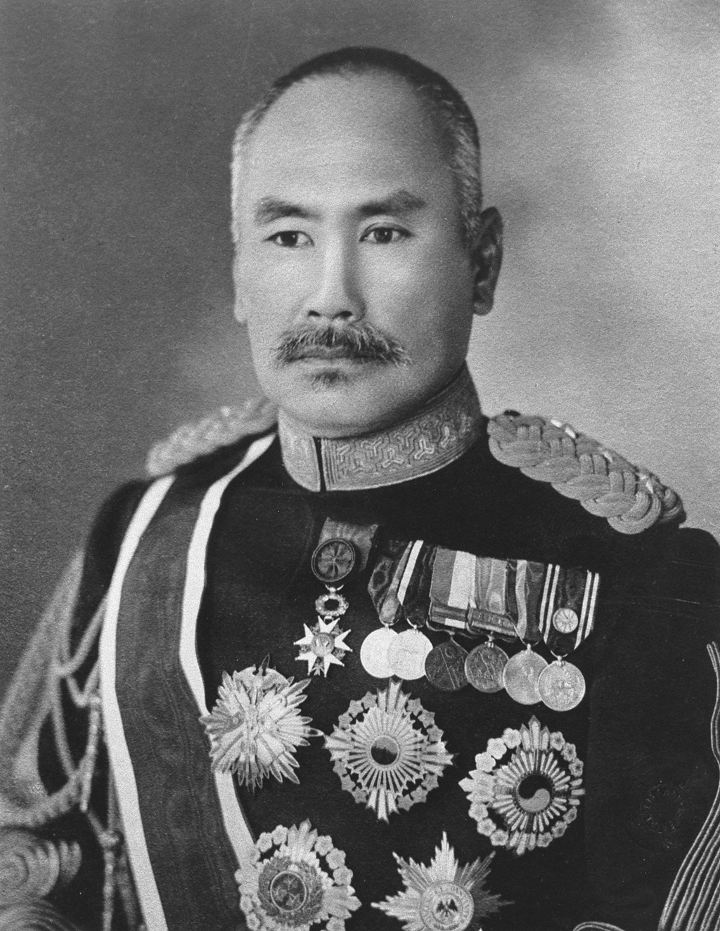 Portrait of Hasegawa Yoshimichi (長谷川好道, 1850 – 1924)